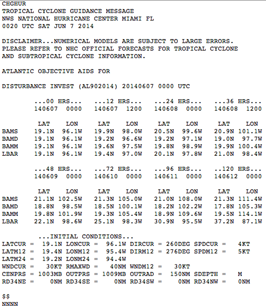 This is an Atlantic Objective Aid message for a tropical disturbance which was in the Gulf of Mexico on June 7, 2014 at 00z